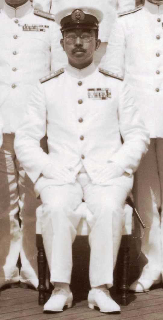 Emperor Hirohito of Japan (front row, center), with officers of the Imperial Japanese Navy, on board the Japanese battleship Musashi off Yokosuka Naval Base, 24 June 1943. Admiral Osami Nagano is sixth from left in the front row.